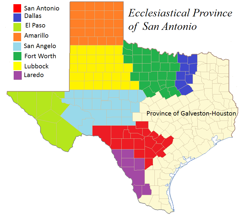 The Ecclesiastical Province of San Antonio in the Catholic Church.